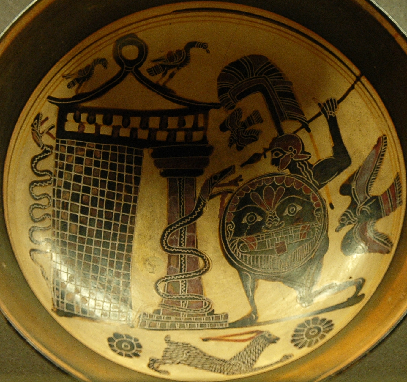 Disputed interpretation: Achilles watching out for Troilus (Louvre notice) or Cadmus fighting the Theban dragon (C.M. Stibbe, Lakonische Vasenmaler des sechsten Jahrhunderts vor Chr., Amsterdam, 1972, p. 170). Detail from a Laconian black-figure cup, ca. 550 BC–540 BC.